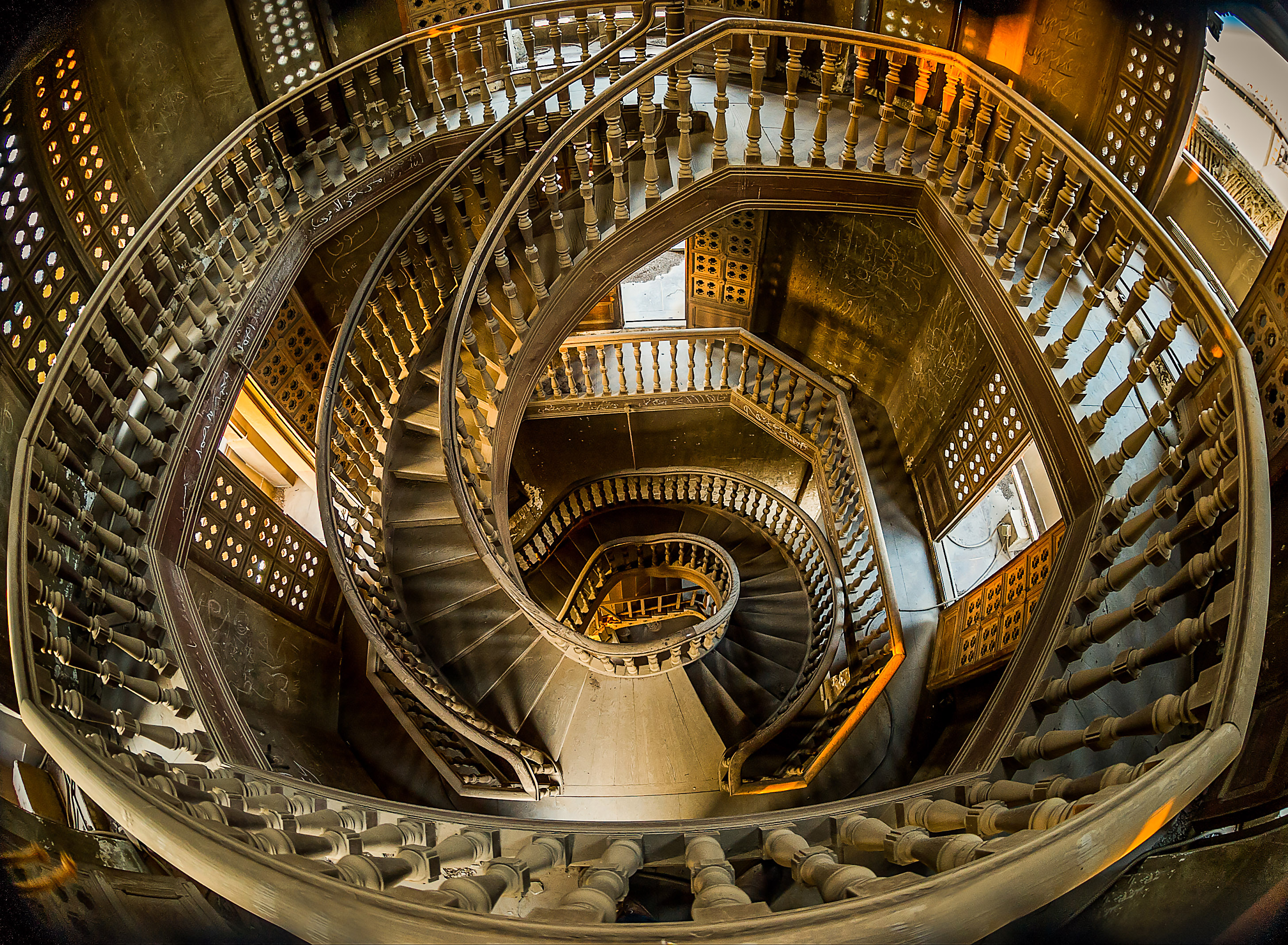 Inner staircase of the Baron Empain Palace tower